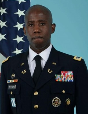 LTC Earl G. Matthews, 2017